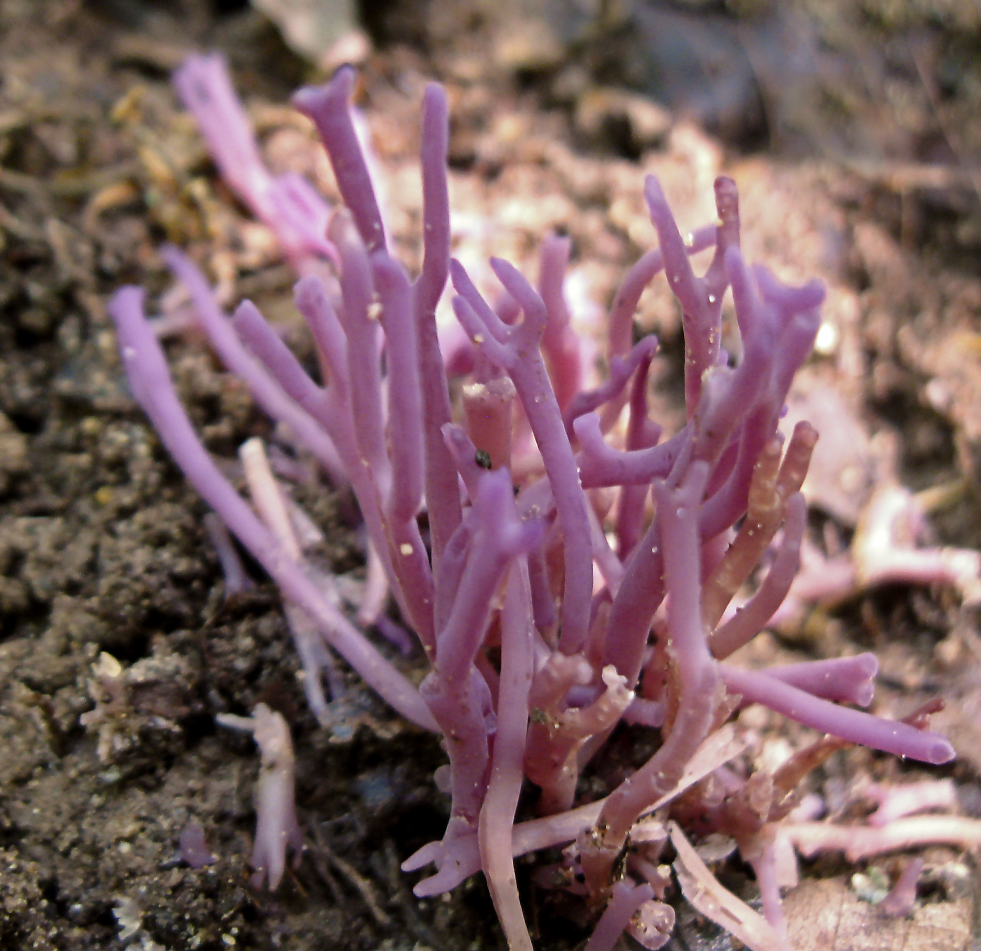 Ramariopsis pulchella (Boud.) Corner Image location: Rock Island State Park, Warren Co., Tennessee, USA Growing on ground in mixed forest Recognized by sight For more information about this, see the observation page at Mushroom Observer.